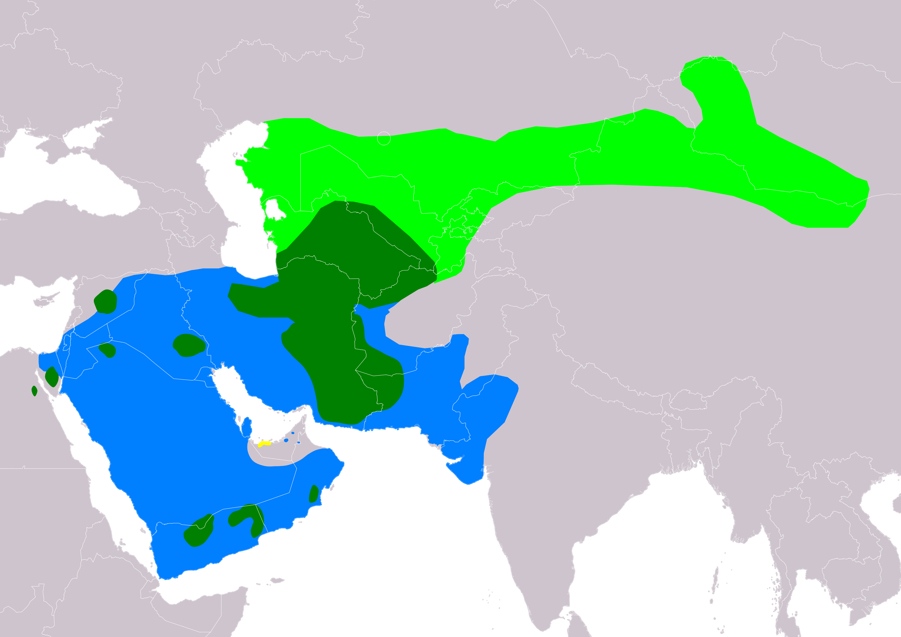 Distribution map of asian houbara (Chlamydotis macqueenii) according to IUCN version 2019-2 ; key: Legend: Extant, breeding (#00FF00), Extant, resident (#008000), Extant, non-breeding (#007FFF), Extant & Reintroduced (resident) (#FFFF00)